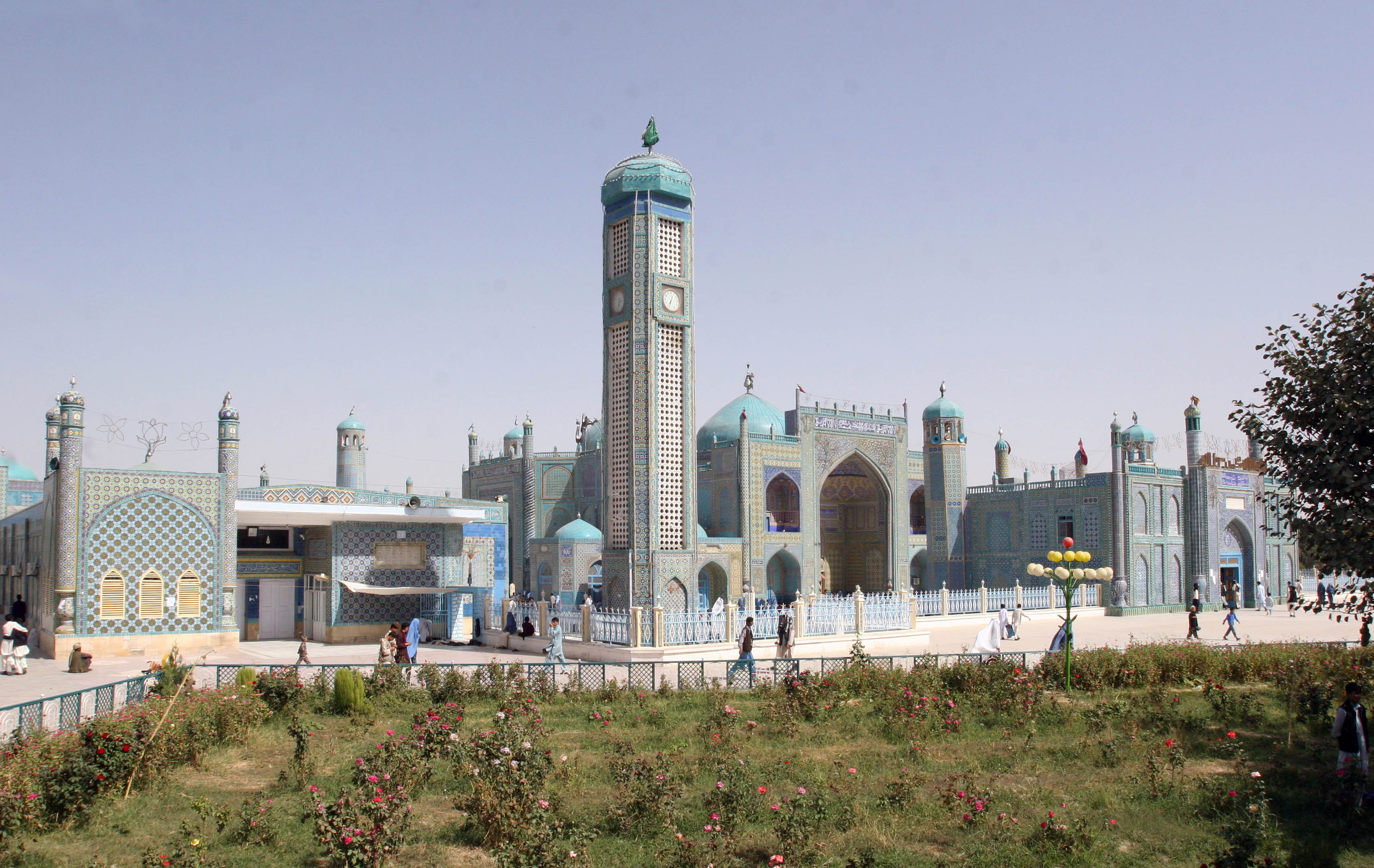 The historic Shrine of Hazrat Ali in Mazar-e-Sharif, Afghanistan Nov. 2009. The Blue Mosque attracts thousands of pilgrims each year. (ISAF Public Affairs Photo)